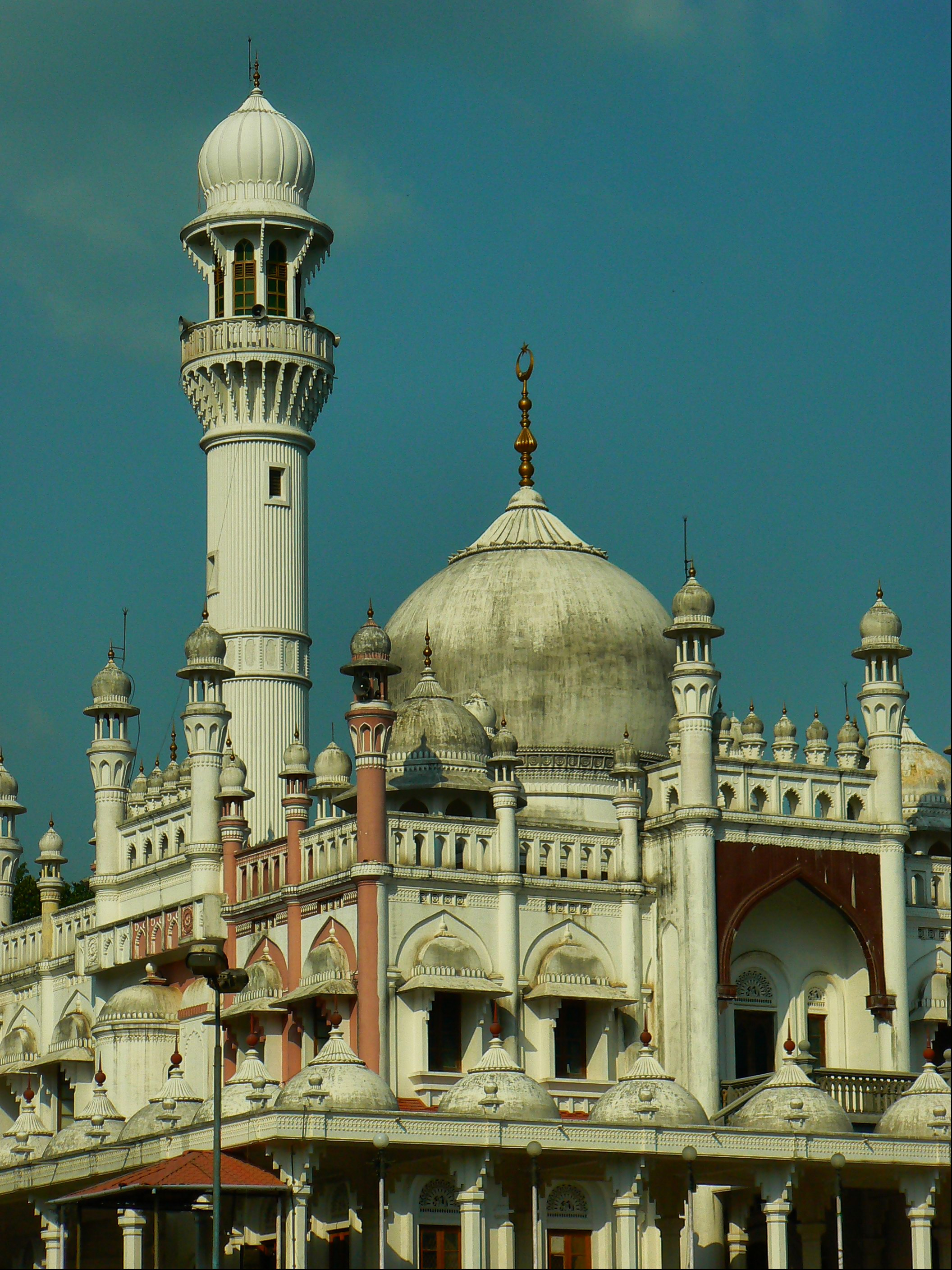 Erumeli is a small town, 60 kms north east of Kottayam town. Erumeli is the gateway to the Sabarimala temple. Erumeli is a famous place for its Vavar mosque. Vavar was the friend and companion of Lord Ayyappa, the deity in Sabarimala temple. The pilgrims going this way to Sabarimala halt here and give offering to Vavar by way of breaking coconuts on a stone by throwing on it. Thousands of pilgrims join the procession of Petta Thullal which is believed that the re-enactment of the annihilation of Mahishi by Lord Ayyappa. Pilgrims paint their faces with colors and dance to the tune of drumbeats. Courtesy: - Kerala4u.in Note: Information has not been verified and may not be reliable; please check for any inaccuracy.